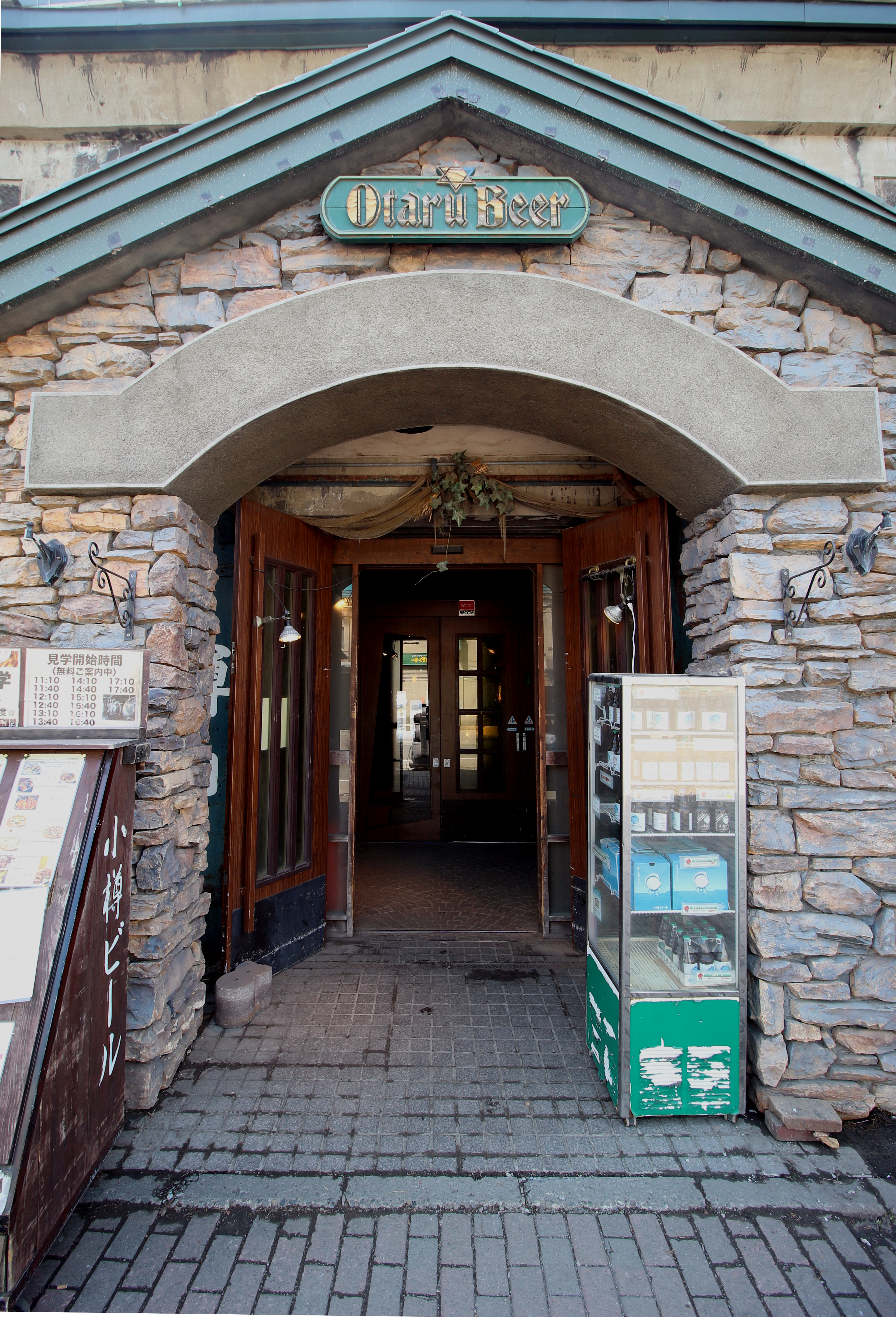 Entrance of the Otaru Beer Brewery in Otaru, Hokkaido.